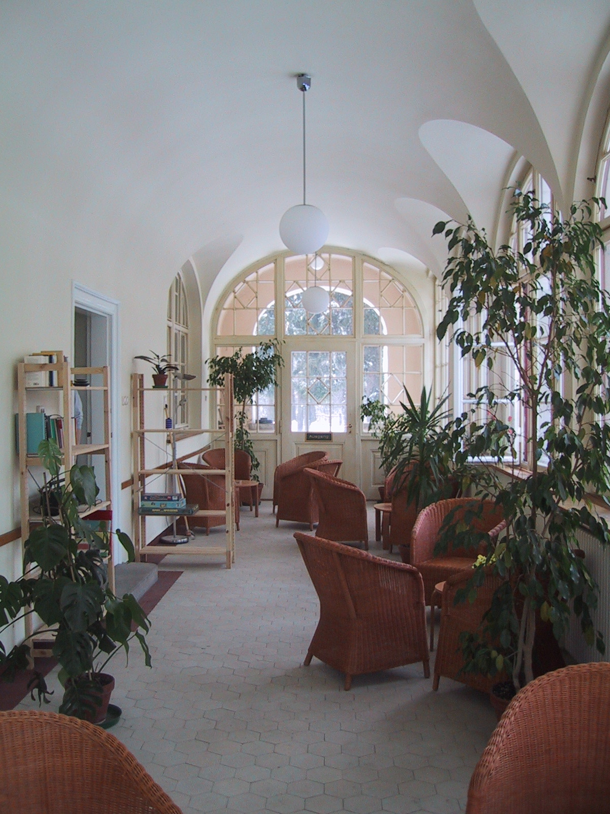 Soteria Lounge in Munich, Germany. Alternative inpatient treatment of people in psychotic crises.